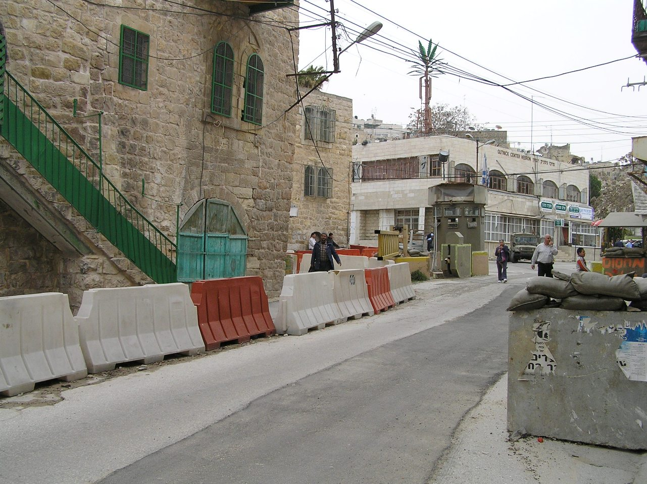 Hebron Gutnick Center. notice the antennas in the shape of a palm tree.